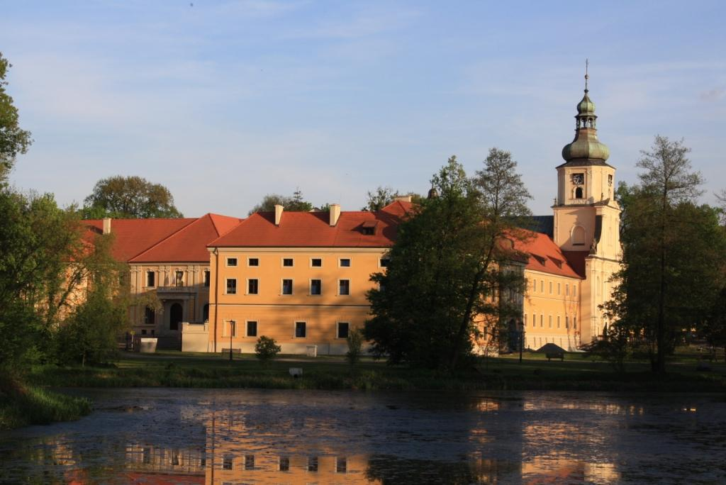 Former cistercian abbey in Rudy (Groß Rauden) in Upper Silesia (Poland). After the renovation in 2011.